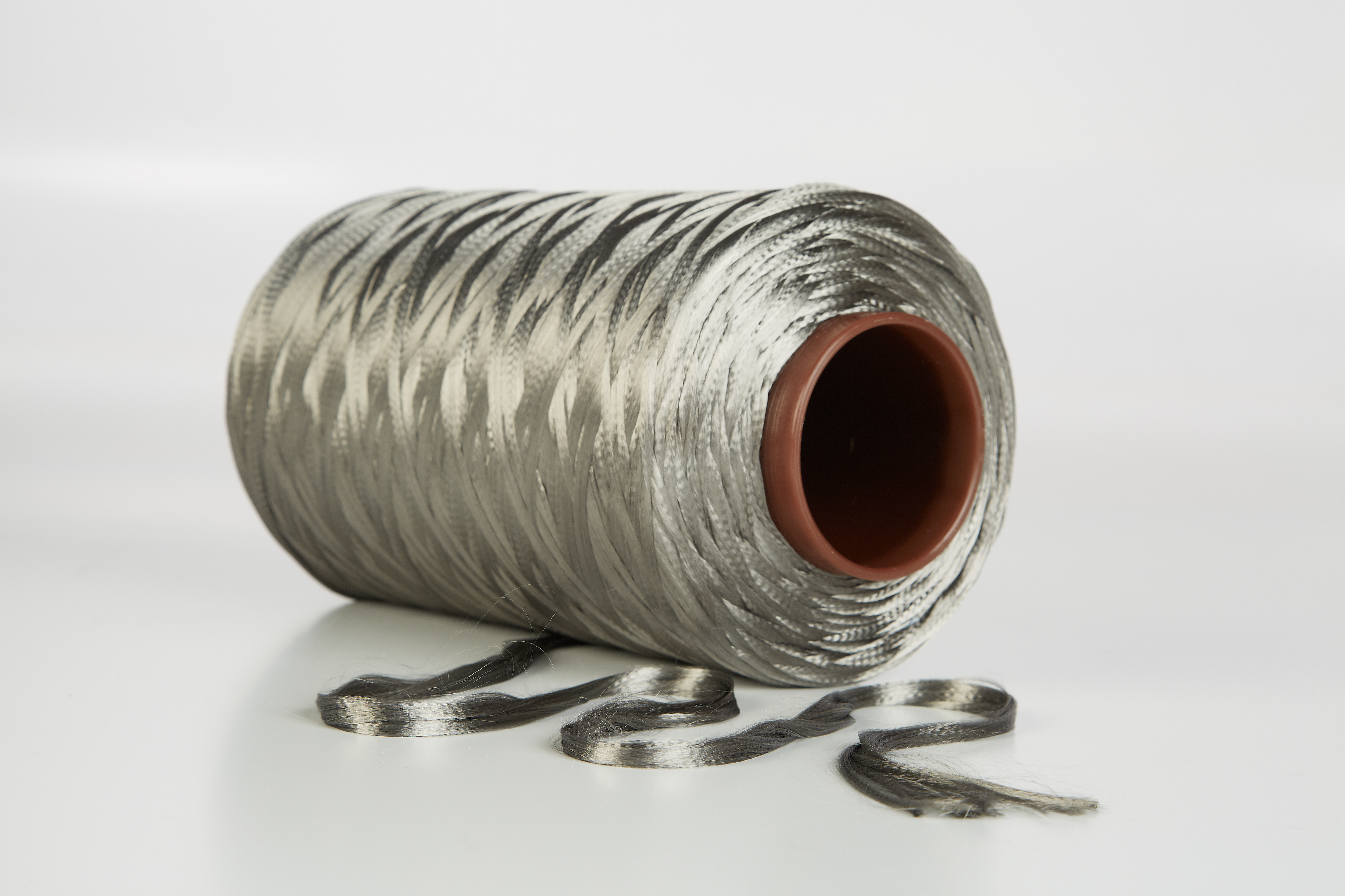 Continuous, bundle drawn metal fiber